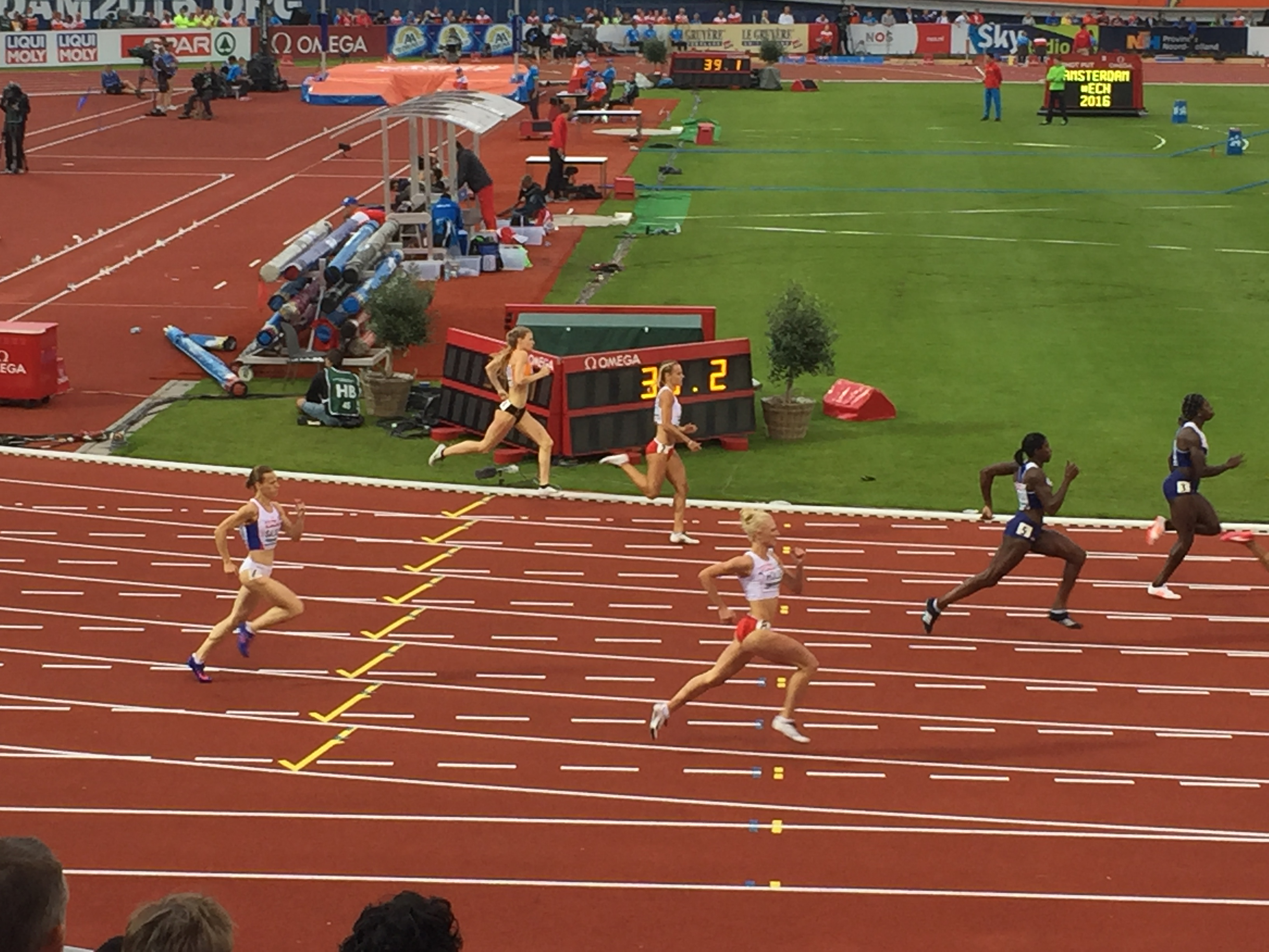 European Athletic Championships 2016 in Amsterdam - 8 July 2016 European Championships in Athletics (8 July) Schedule for this day (evening session): Hepathlon W: 18:05 Shot Put 20:00 200m Round 1: 18:15 1500m W Semi-Finals: 18:35 800m M 18:50 200m M 19:15 100m W Finals: 18:10 Hamer Throw W 19:10 Pole Vault M 19:20 Long Jump W 19:40 400m Hurdles M 19:50 400m M 20:15 Discus Throw W 20:25 400m W 20:35 200m M 20:45 10,000m M 21:25 3000m Steeplechase M 21:45 100m W